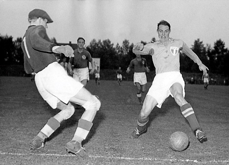 Swedish football player Ingvar Rydell in a game in 1950